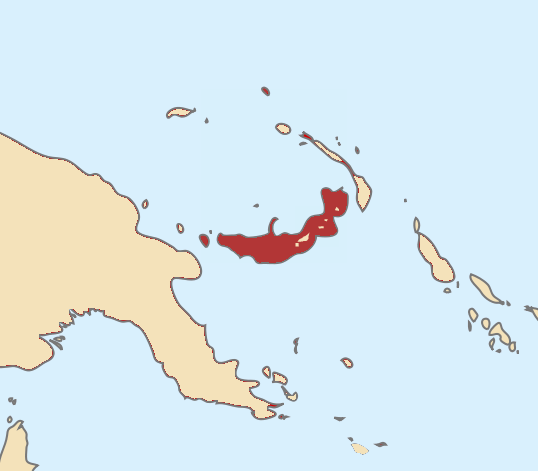 The New Britain Bronzewing's Distribution.